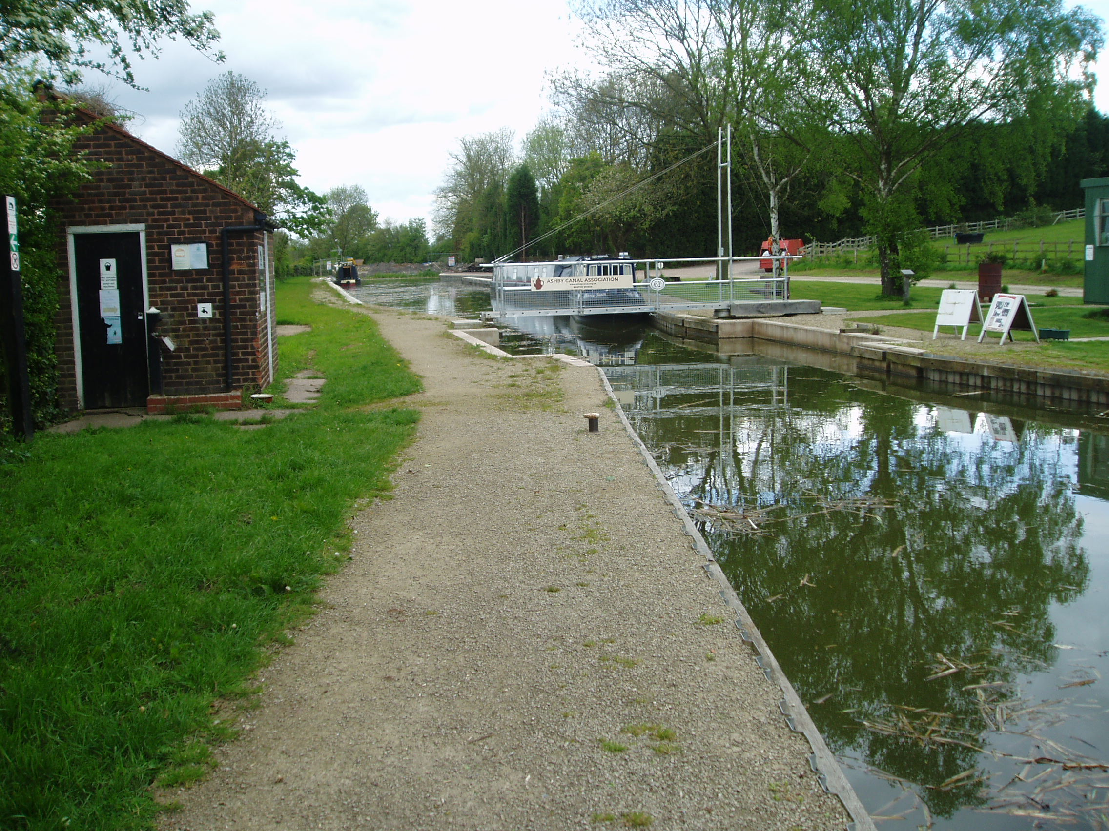 The swing bridge which marks the start of the Leicester County Council extension of the Ashby Canal at Snarestone, England. Although there are recesses for stop-lock gates, there was no sign of the actual gates in May 2012.